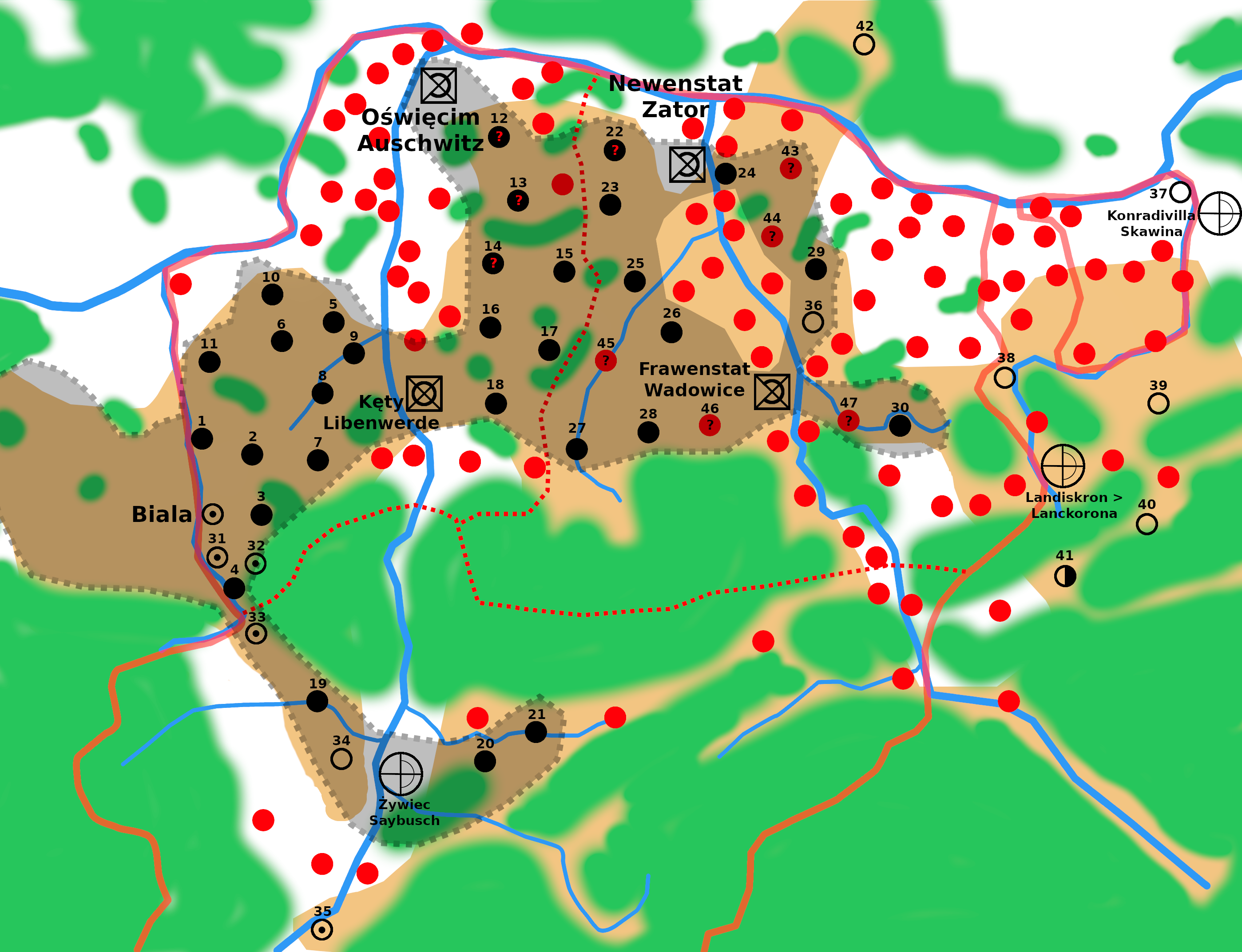 Medieval settlement of the Duchy of Auschwitz German settlement late 13th-14th century Forests (nowadays) area of new establishments on the German law red line - border of the Duchy, red dotted line - internal divisions of the Duchy, blue lines - rivers, red dots - Polish villages, black dots German villages (here you need to compare it with File:Bielsko-Biała Language Island.png and read its commentary) This is the combination of 3 maps: File:GermanHamletsSince15th.jpg, File:Księstwo oświęcimskie.png and from Rafał Malik: Oświęcim.Charakterystyka układu lokacyjnego miasta oraz jego rozwój przestrzenny w okresie średniowiecza. Kraków: 1994. p. 5-6.